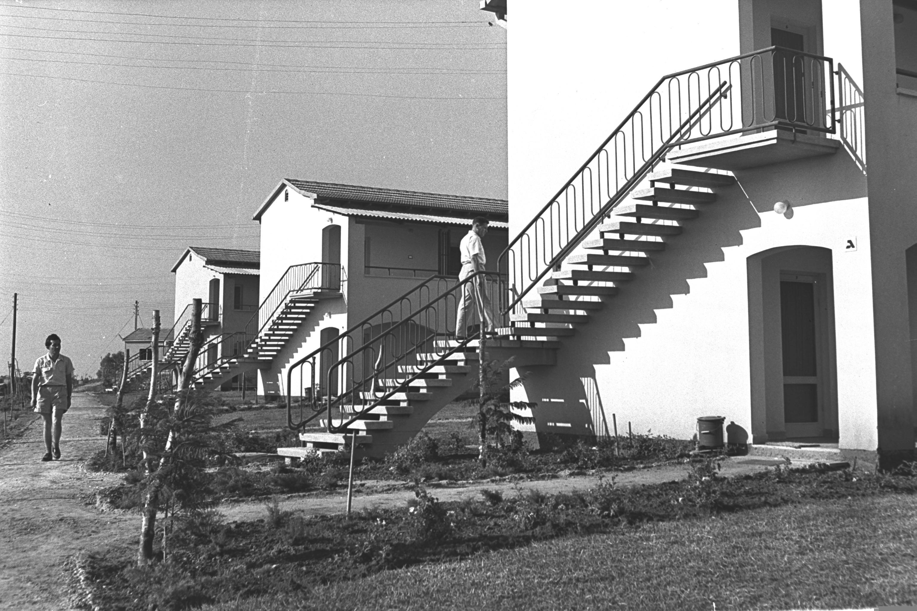 Recreation home for government workers near Kfar Vitkin.